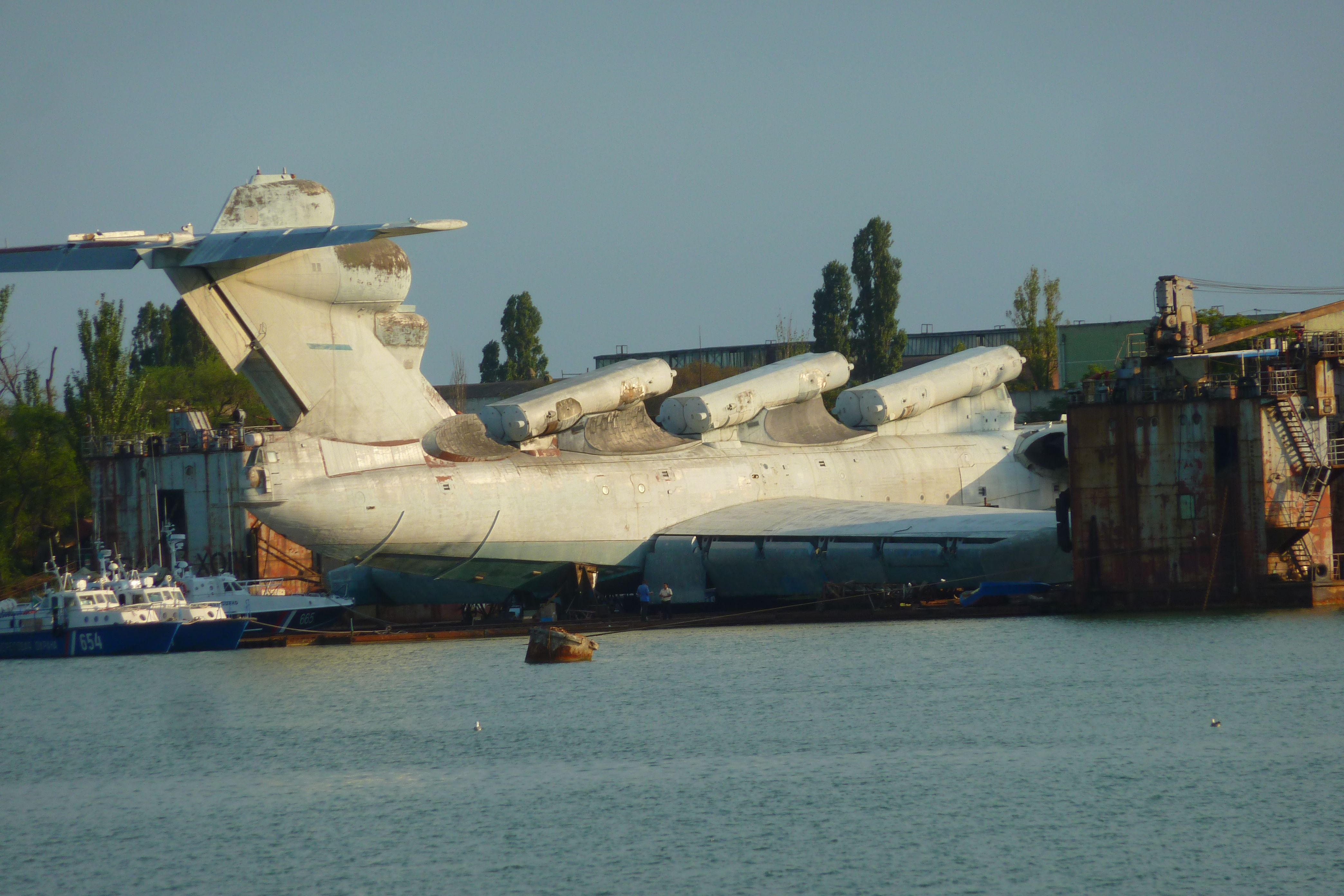 The Lun-class (harrier) ekranoplan (NATO reporting name Duck) was a seaplane designed by Rostislav Evgenievich Alexeev and used by the Soviet and Russian navies from 1987 to sometime in the late 1990s. This ground effect aircraft used the extra lift generated by its large wings when close to the surface of the water (about four meters or less). Lun was one of the largest seaplanes ever built, with a length of 73 m (240 ft), rivaling the Hughes H-4 Hercules ("The Spruce Goose") and many jumbo jets.